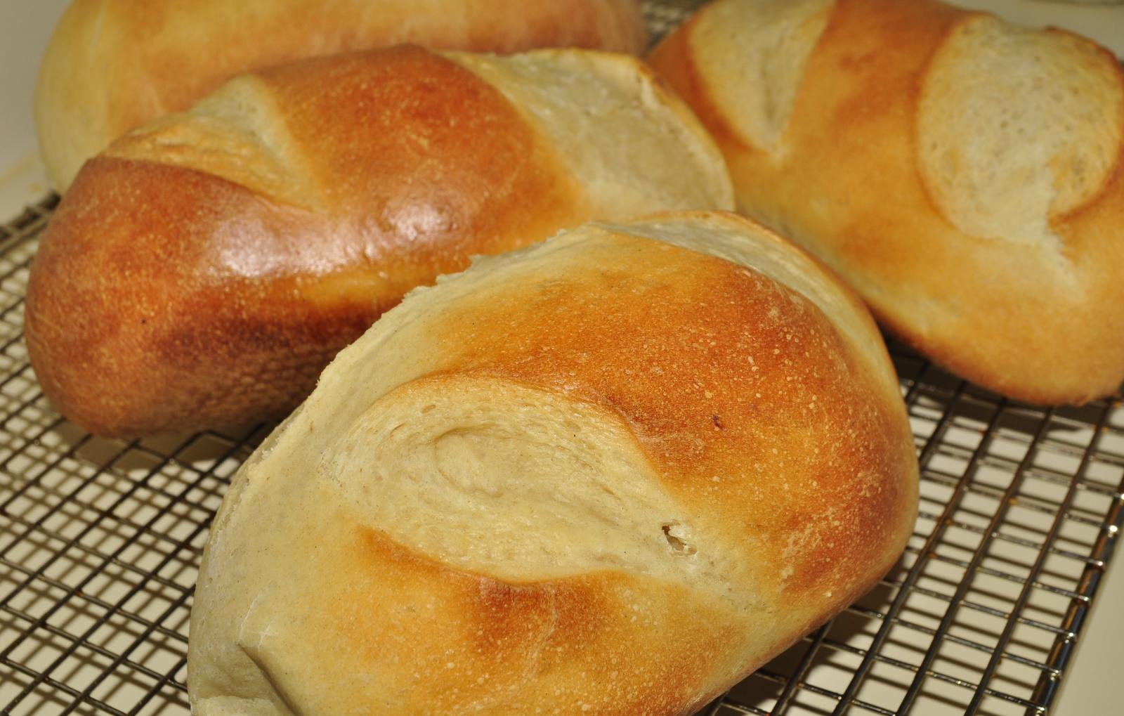 Rolls on cooling rack